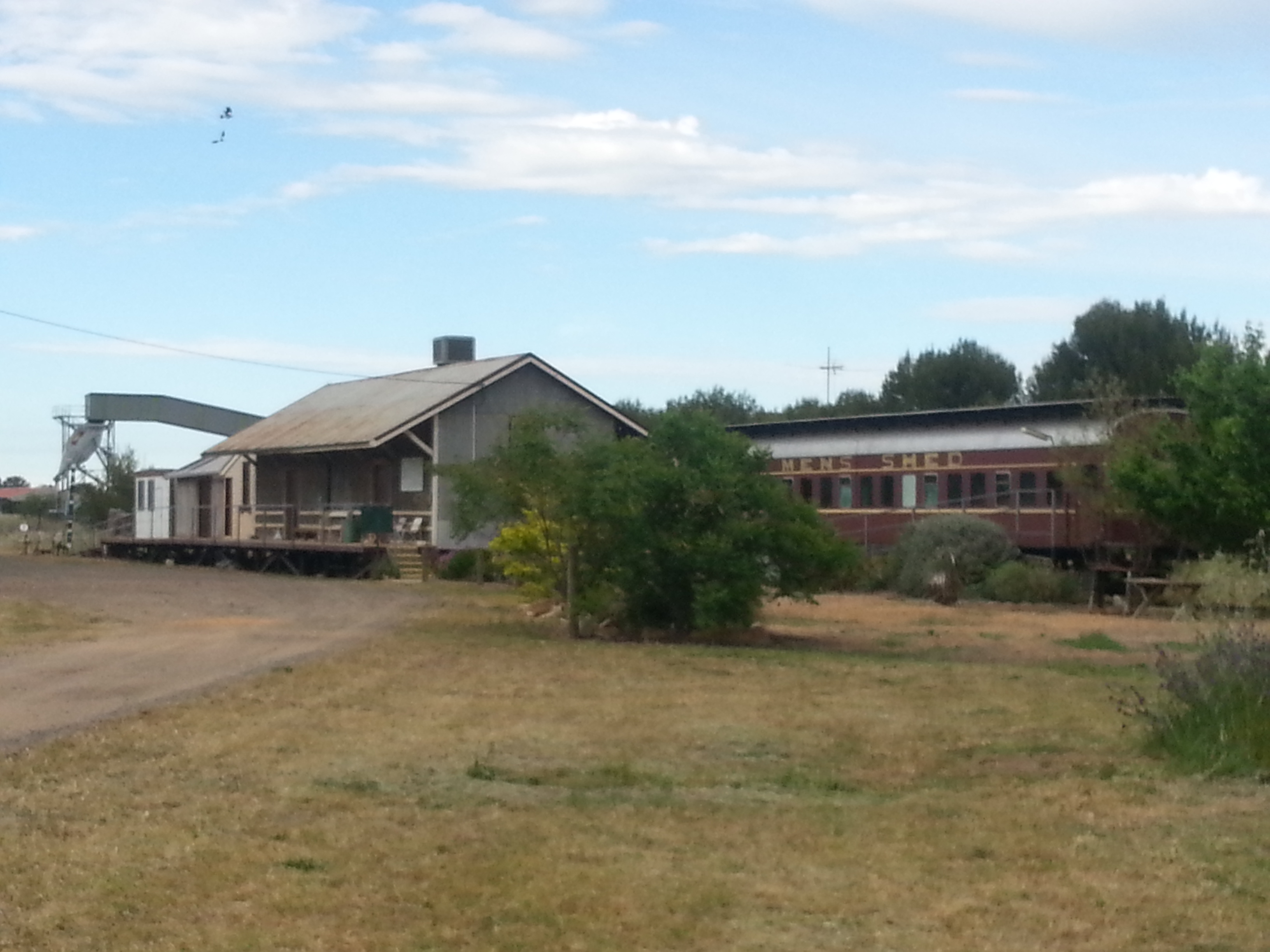 Grenfell Goods Shed from street side. Grenfell is a small town in the Central West of New South Wales. The line was opened in 1901